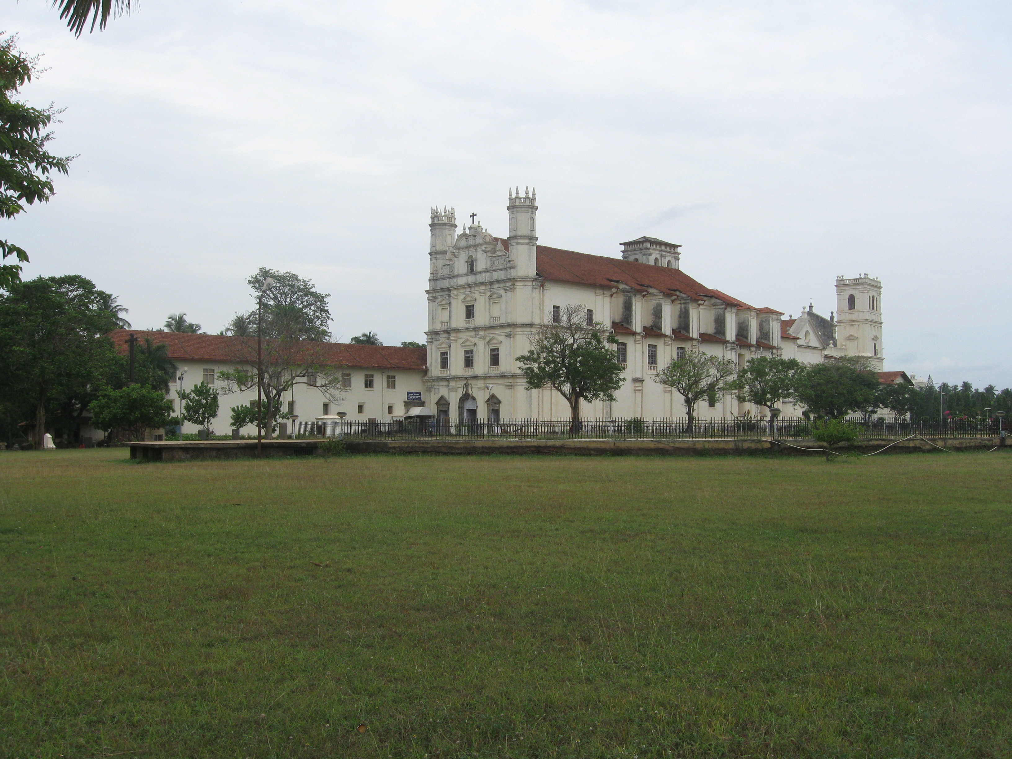 Church of St. Francis of Assisi located in Old Goa